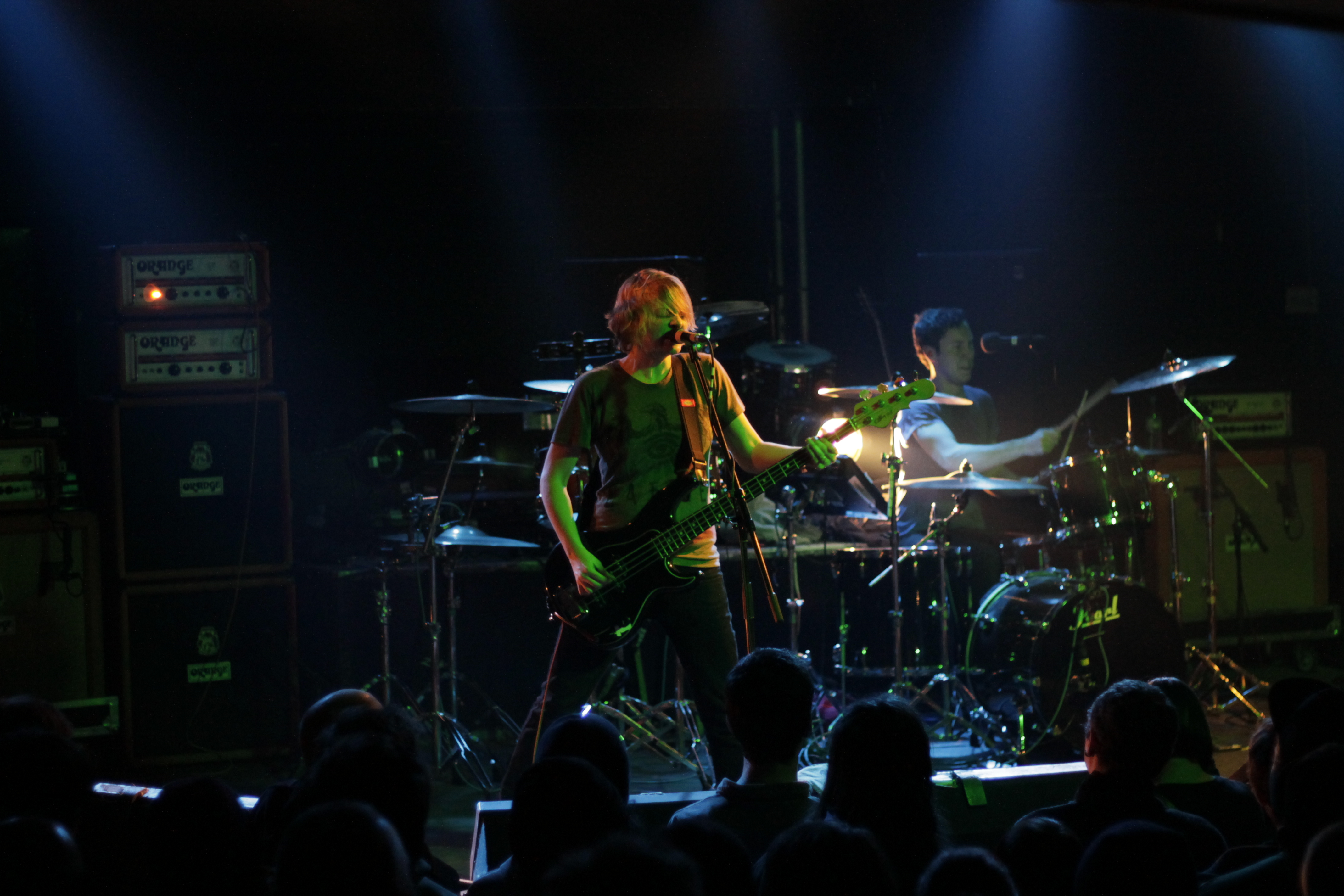 Circle Takes the Square members Kathy Coppola (left) and Caleb Collins (right) in Leipzig, Germany in 2012